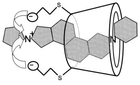 sugammadex encapsulating rocuronium molecule. Carboxyl groups (only two shown, eight present) electrostatic attractions for positively charged ammonium represented by arrows.